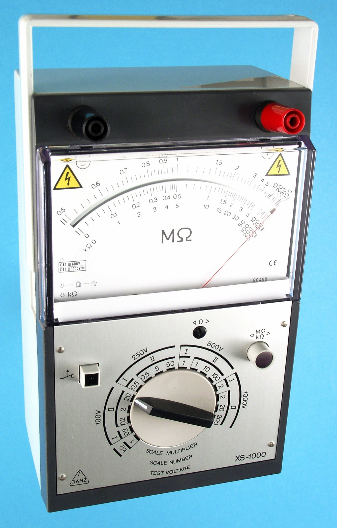 Insulation tester